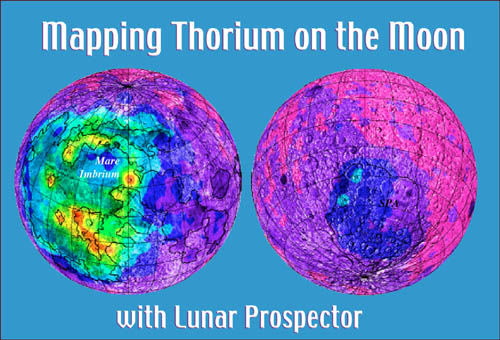 Image sourced from hi-res TIF is at